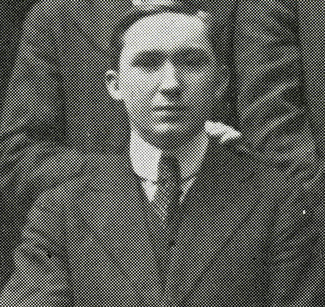 Patrick Aloysius O'Boyle (July 18, 1896 – August 10, 1987)